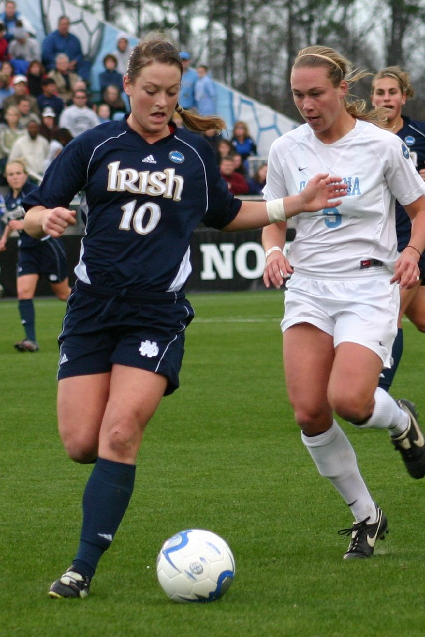 The UNC Tar Heels women defeated Notre Dame 2-1 to win their 18th national women's soccer title at SAS Soccer Park in Cary, NC on Sunday, December 3, 2006. UNC's goals were scored by Casey Nogueira and Heather O'Reilly.